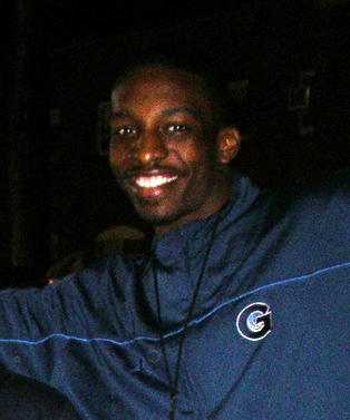 Jeff Green, Georgetown Hoyas men's basketball team player, visits with students camped out for Final Four 2007 tickets